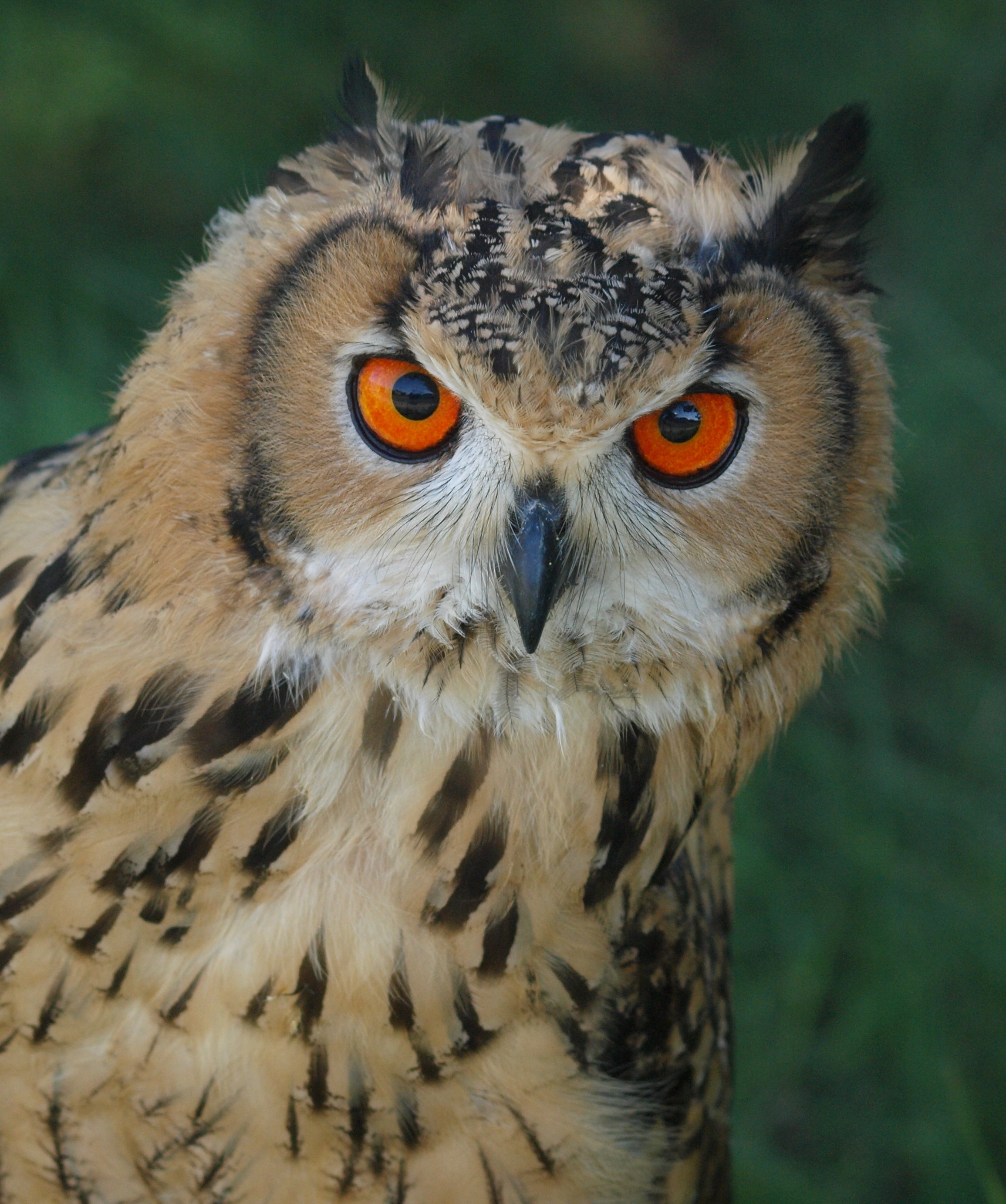 Indian Eagle-owl